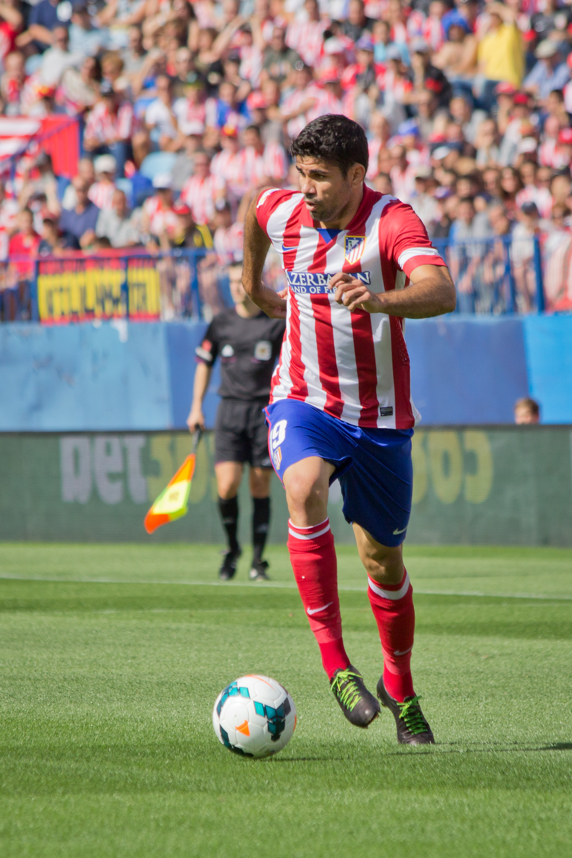 Brasilian football player Diego Costa during a game with Atlético de Madrid.